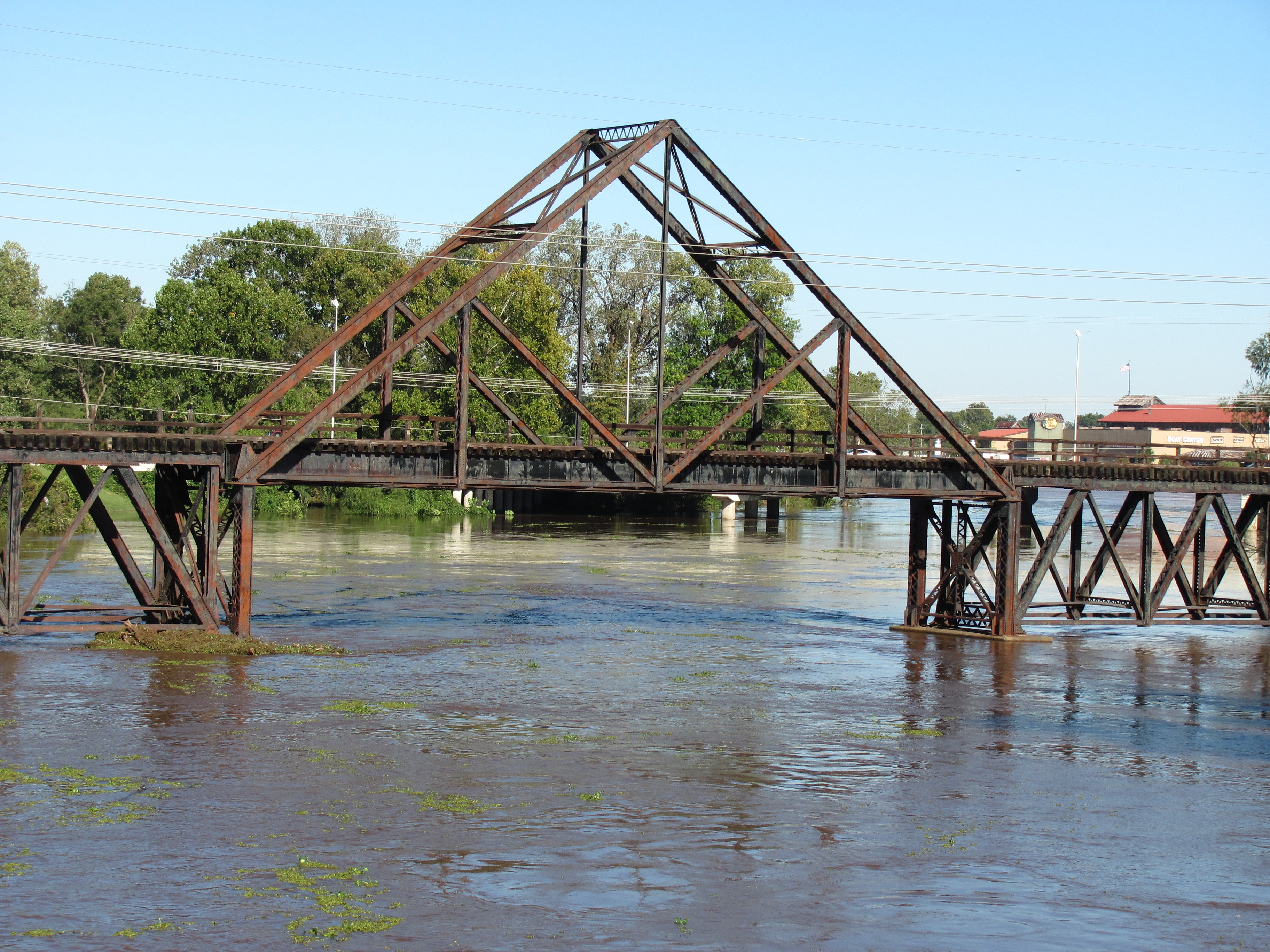 Historic KCS railroad bridge over Cross Bayou, Shreveport, LA. Looking East from Spring Street Bridge. The automobiles are on another bridge behind the KCS bridge. 009:10:19 16:01:24